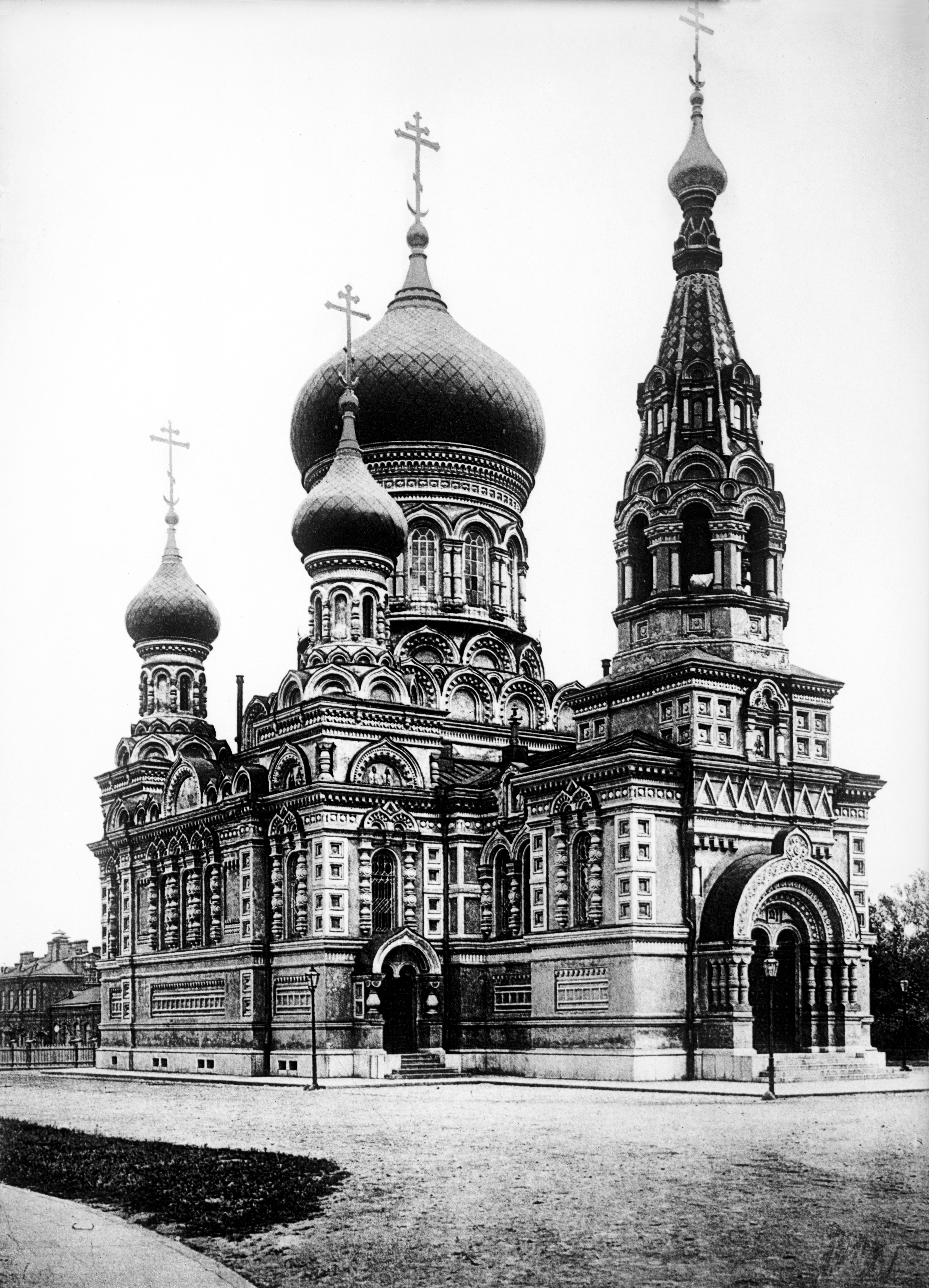 Cerkiew św. Michała Archanioła Archistratega w Warszawie